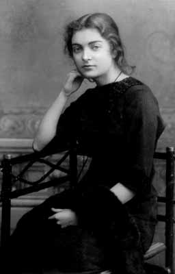 Photo of Belarusian actress, pedagogue and memorialist Paŭlina Miadziołka Беларуская (тарашкевіца): Фатаздымак беларускай артысткі, пэдагога, мэмуарысткі Паўліны Мядзёлкі